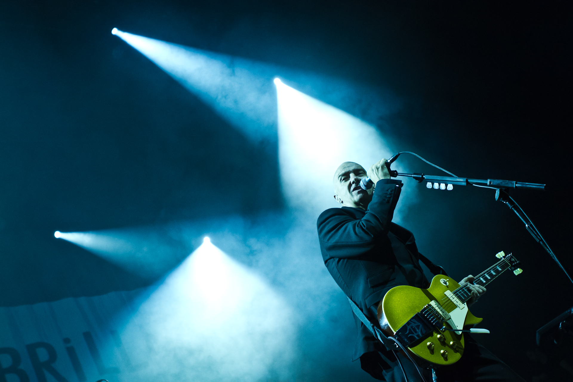 James "Midge" Ure of Ultravox 2012 at the E-Werk Cologne